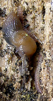 Decaying tree Lieu : North of France. Deroceras, possibly D. panormitanum, determined 04 June 2011 by Francisco Welter-Schultes